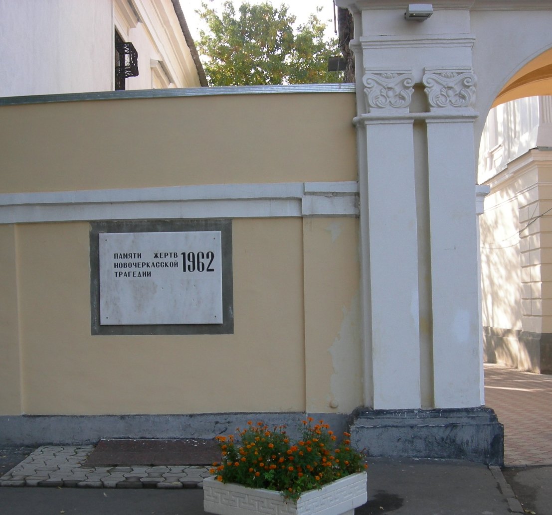 Novocherkassk. The plaque on the Palace Square in memory of the victims of the tragedy of Novocherkassk in 1962. The seven bullet holes symbolize the 7 people who were shot by the court as "instigators of disorder"